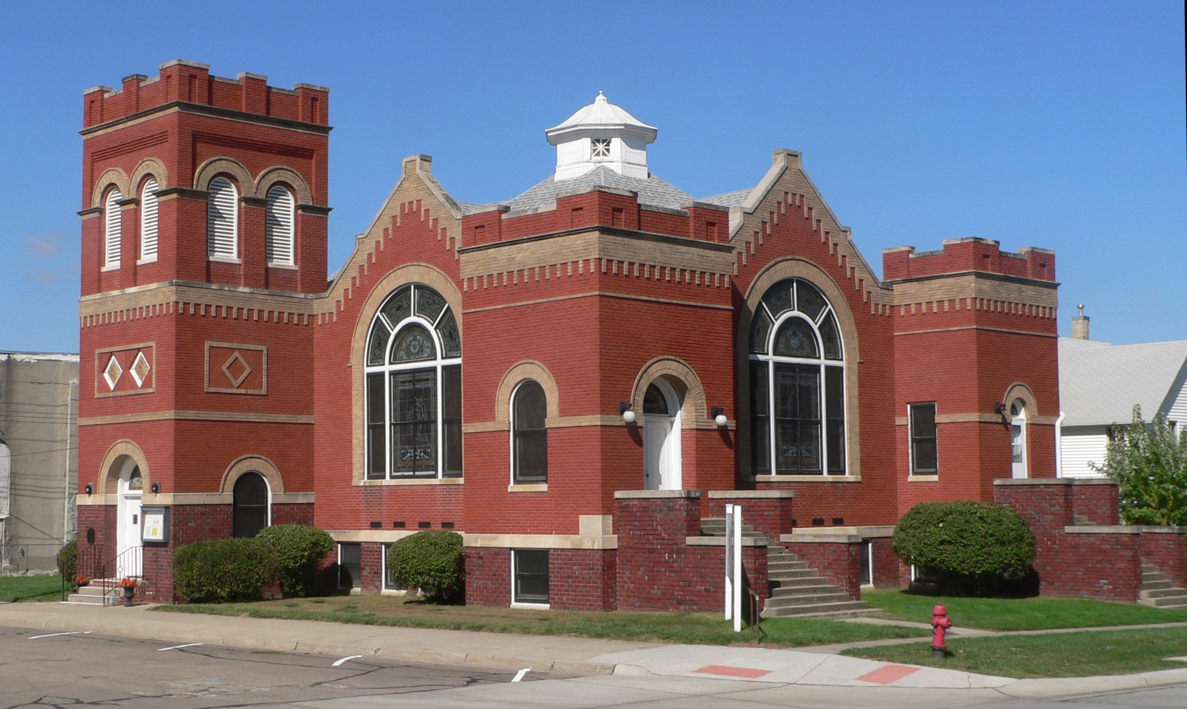 First United Presbyterian Church, now Historic Presbyterian Center, in Madison, Nebraska; seen from the southeast.